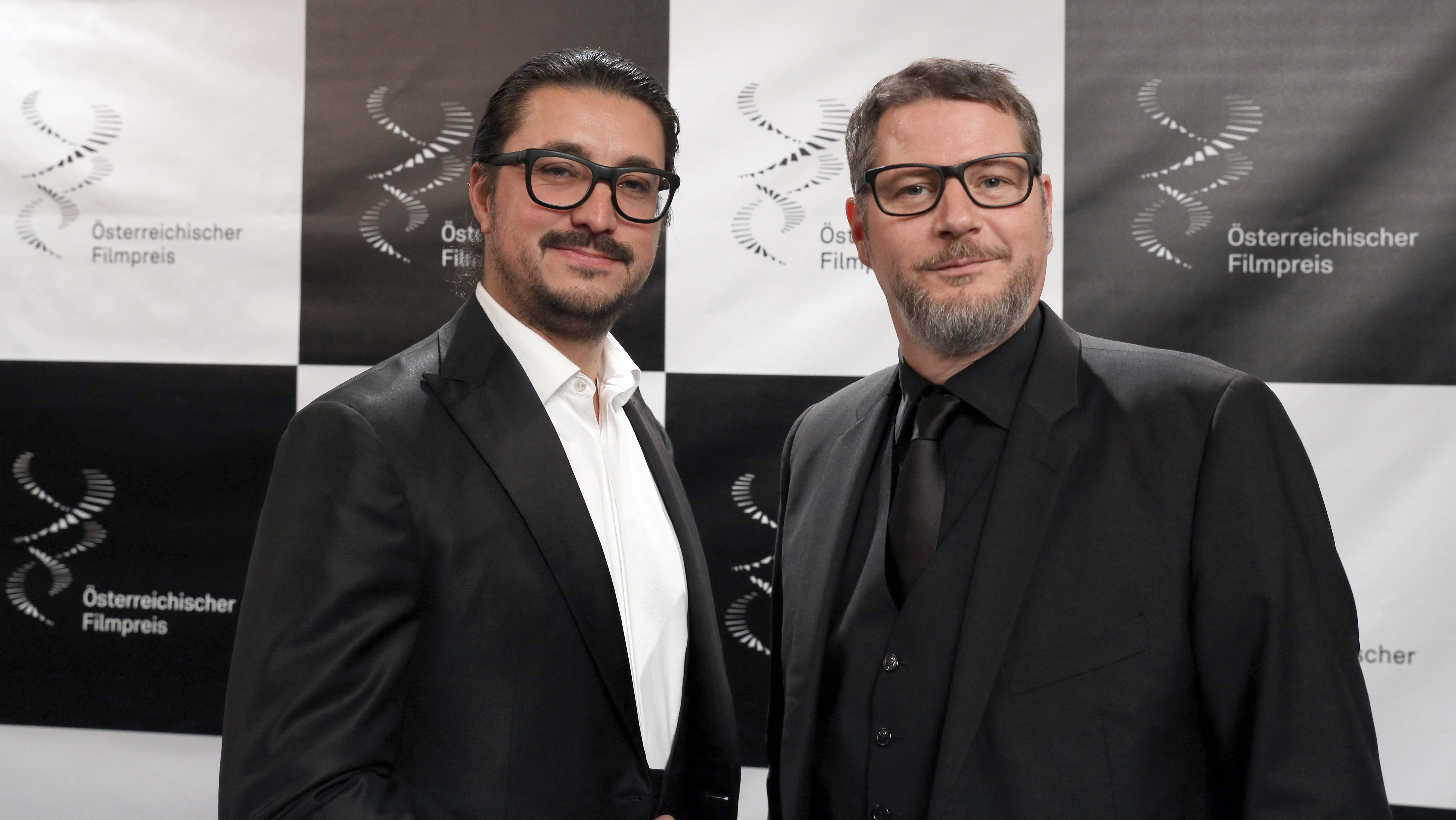 Thomas Kiennast and Andreas Prochaska at the Austrian Film Awards 2015 at Rathaus, Vienna,Austria.